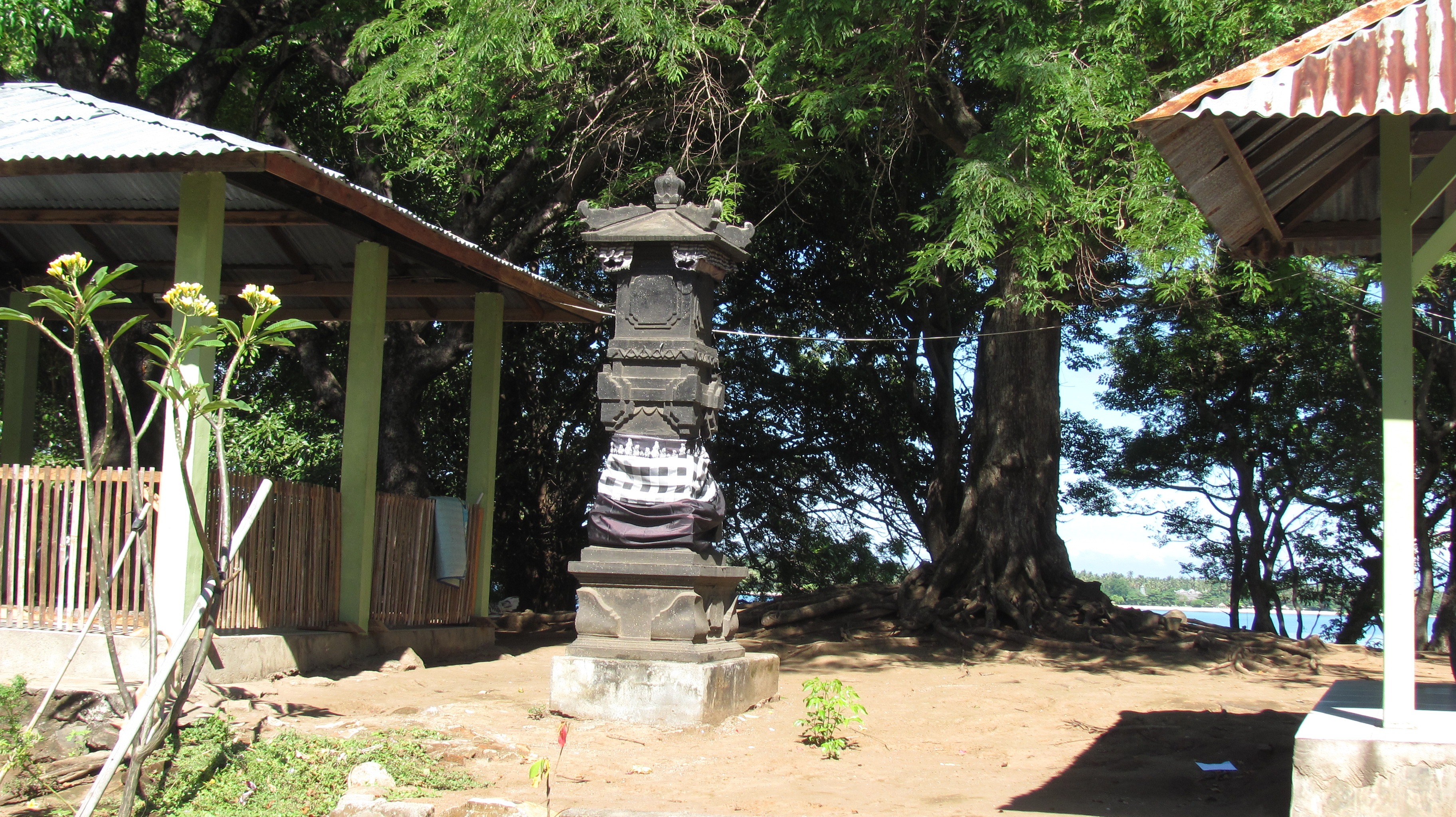 Hindu Temple Pura Medana nedar Tanjung, Lombok, Indonesia